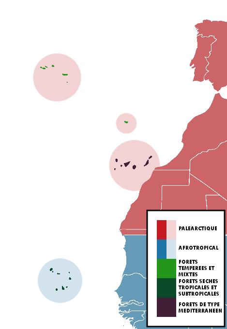 Map of ecozones and biomes of Macaronesia.